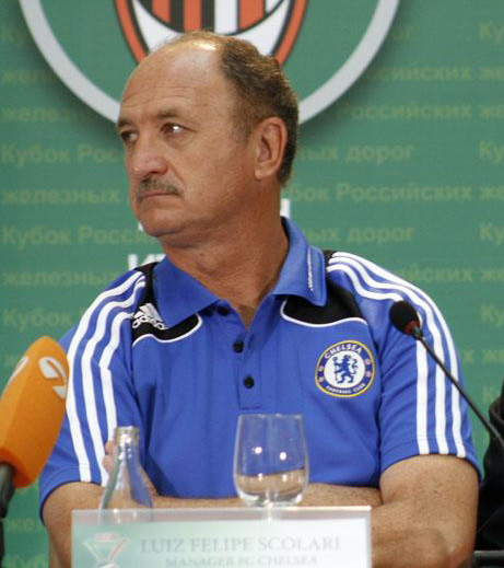 Luiz Felipe Scolari